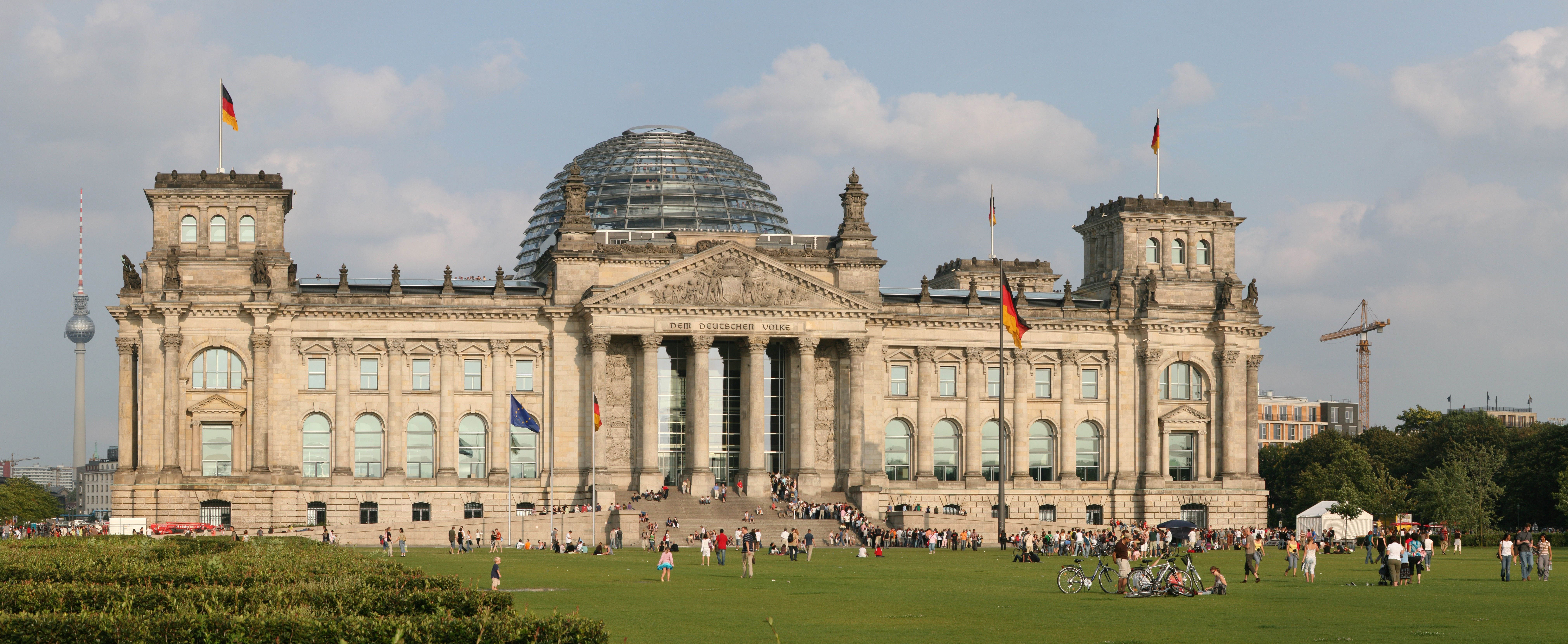 Reichstag in Berlin